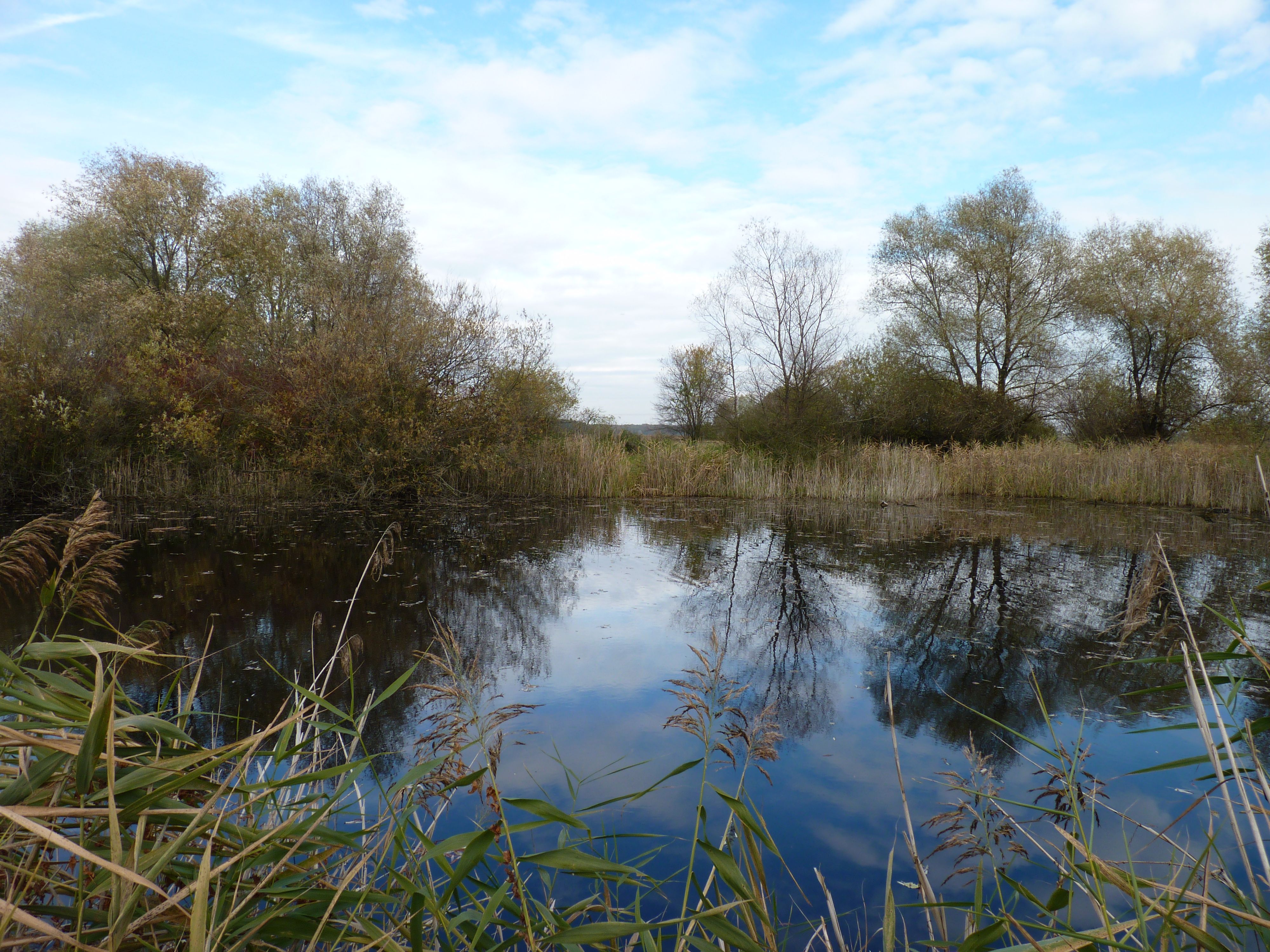 V Jezírkách